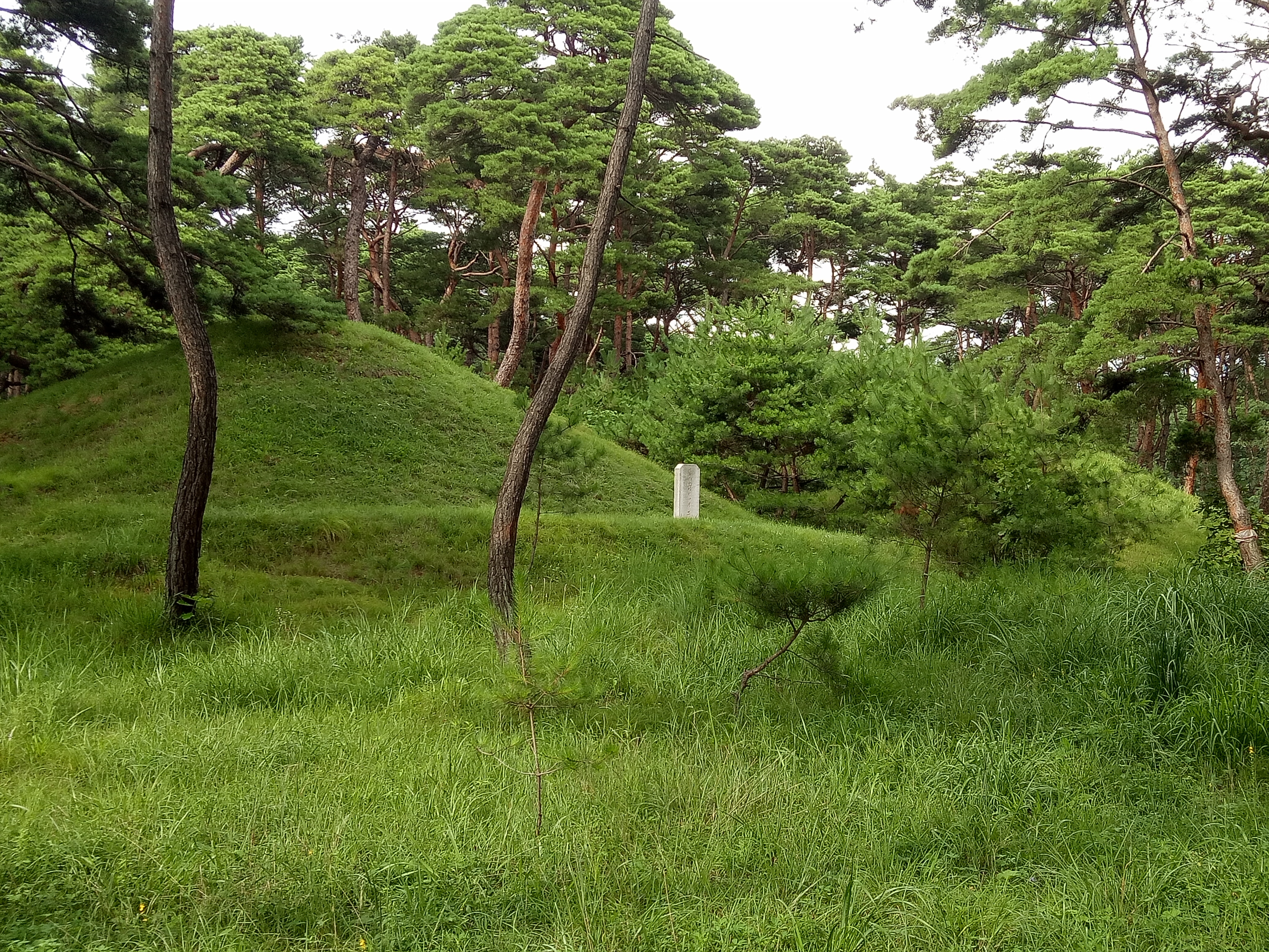 Royal burial tumuli within the grounds of King Tongmyŏng mausoleum complex, Pyongyang.